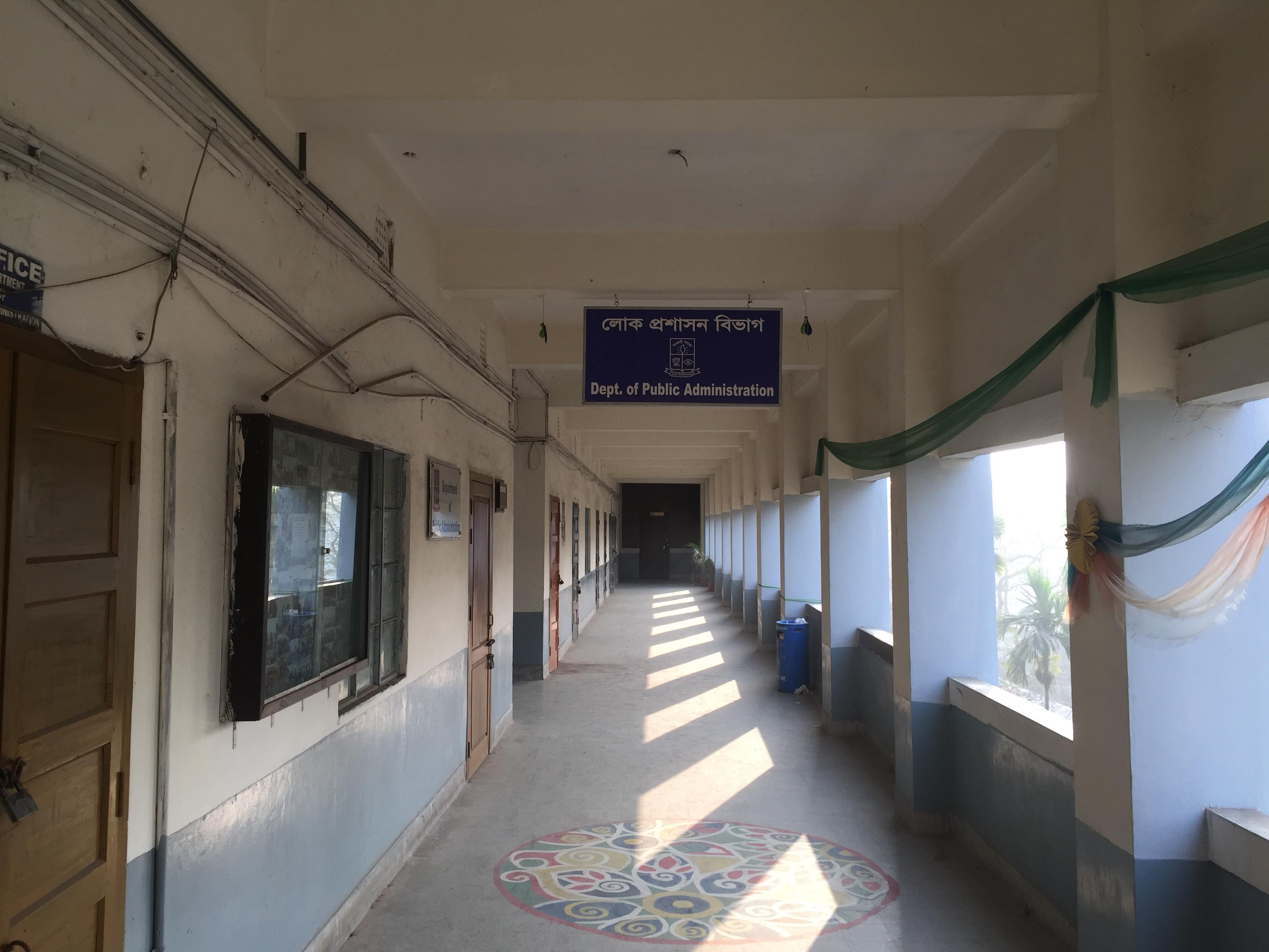 Department of Public Administration, University of Dhaka